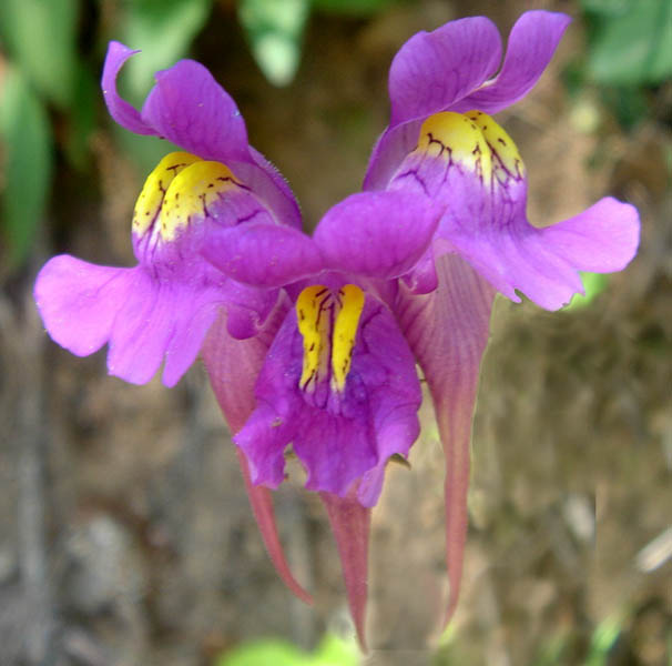 Linaria triornithophora